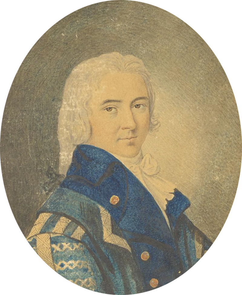 Leonard William Hartley, owner of Middleton Lodge